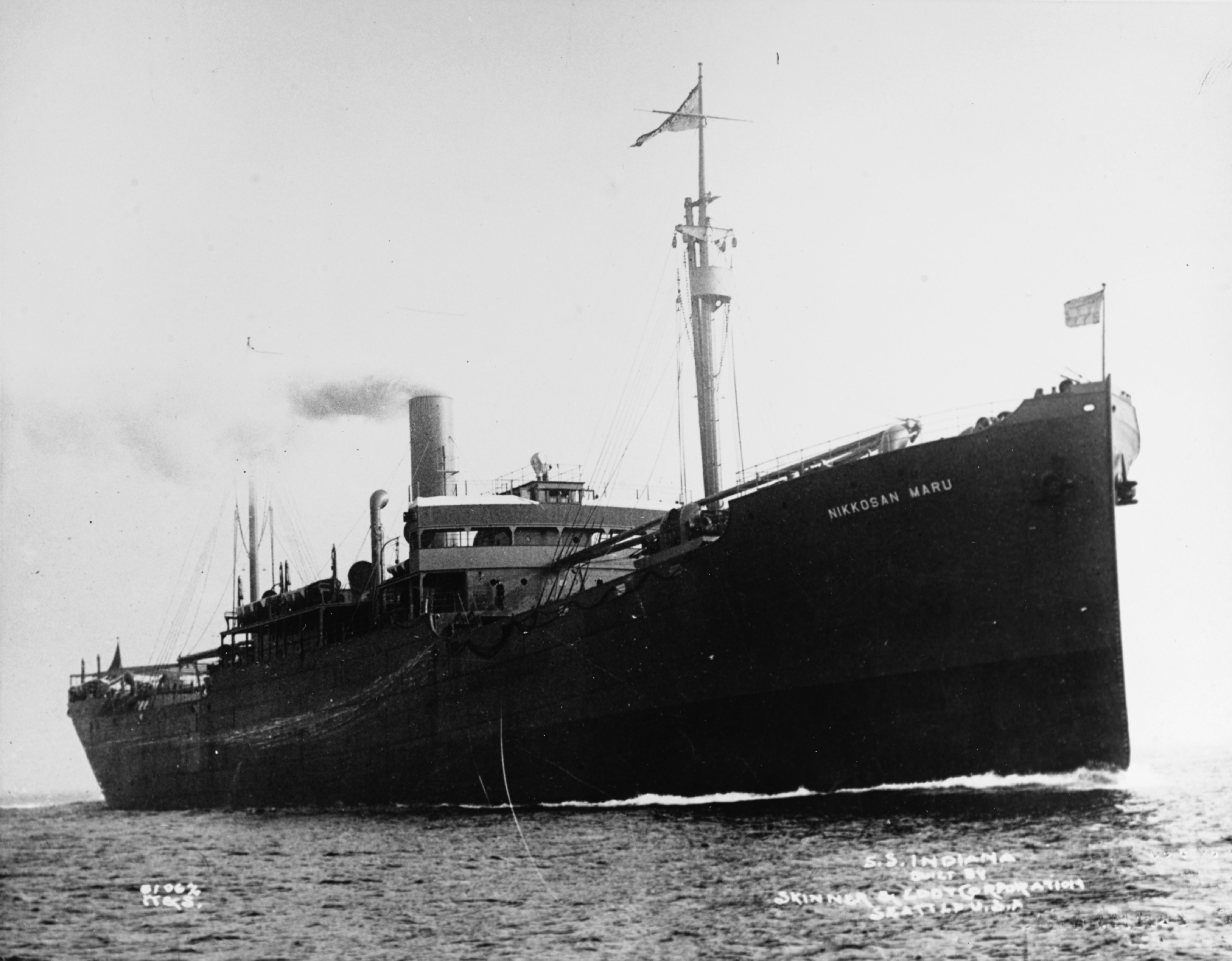 SS Nikkosan Maru underway off Seattle, Washington, in late 1917, probably during trials. She was USS Western Front (ID-1787) in 1918-19.